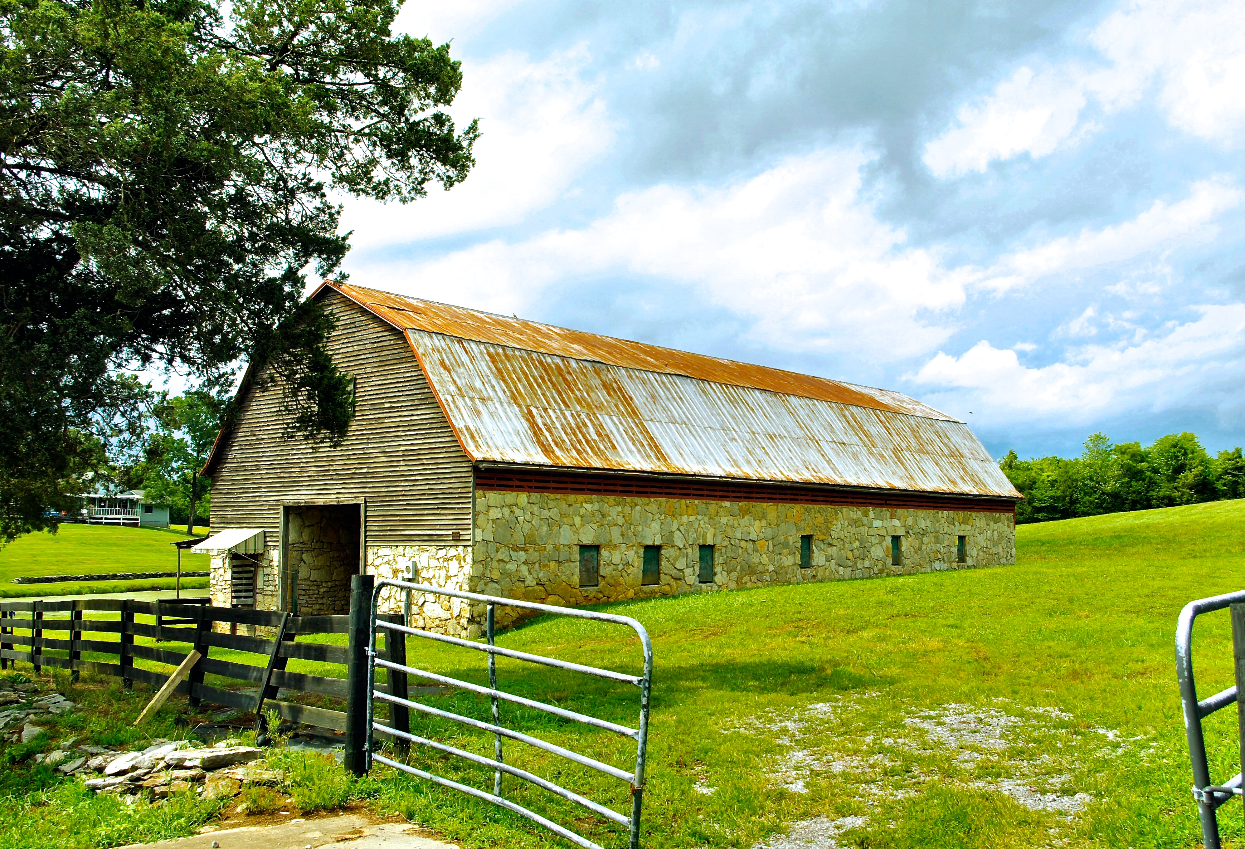 The Bradford Rymer Barn along State Highway 60 in the Georgetown community of Meigs County, Tennessee, United States.